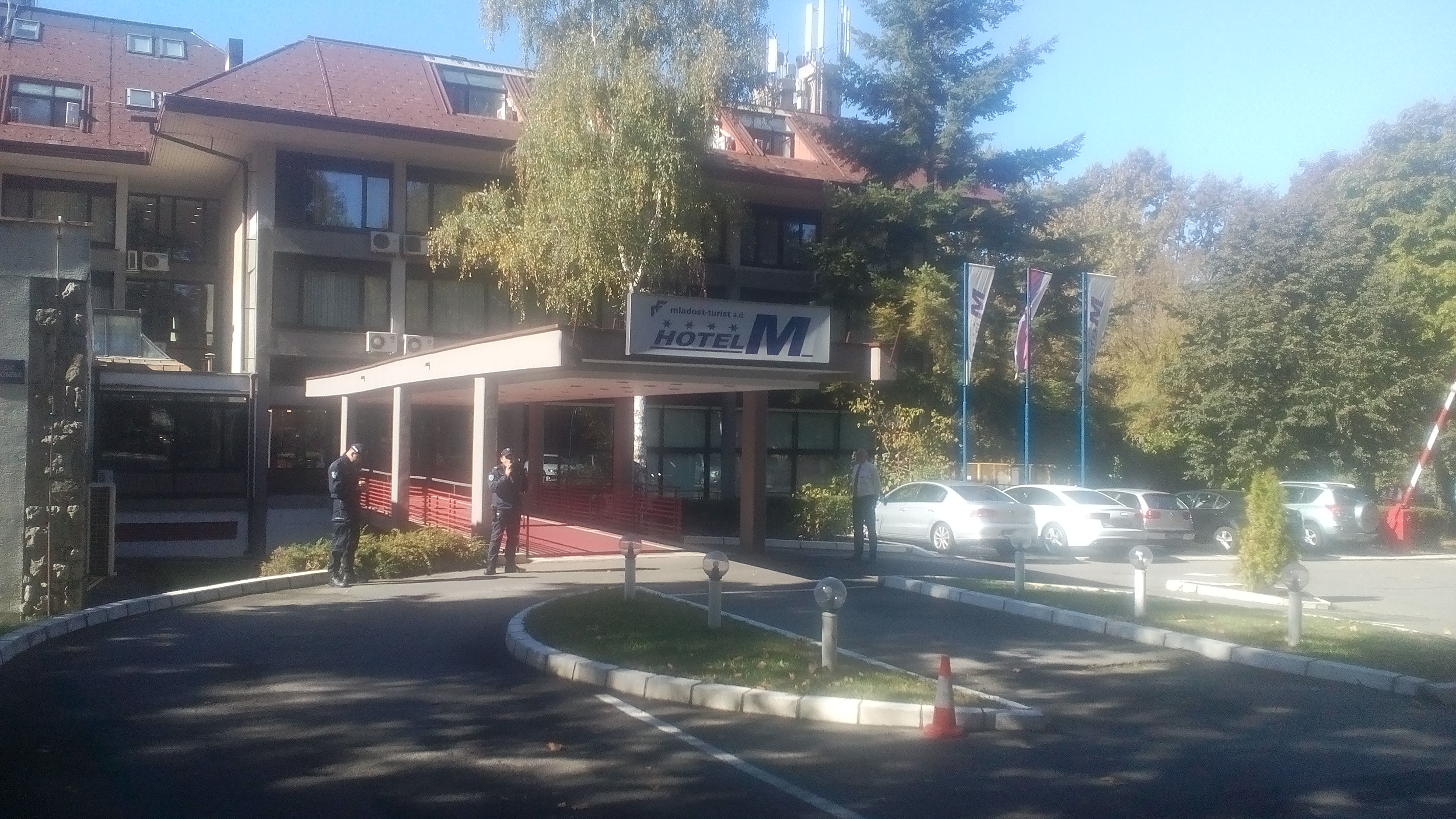 Bulevar Oslobodjenja in Belgrade, Hotel M